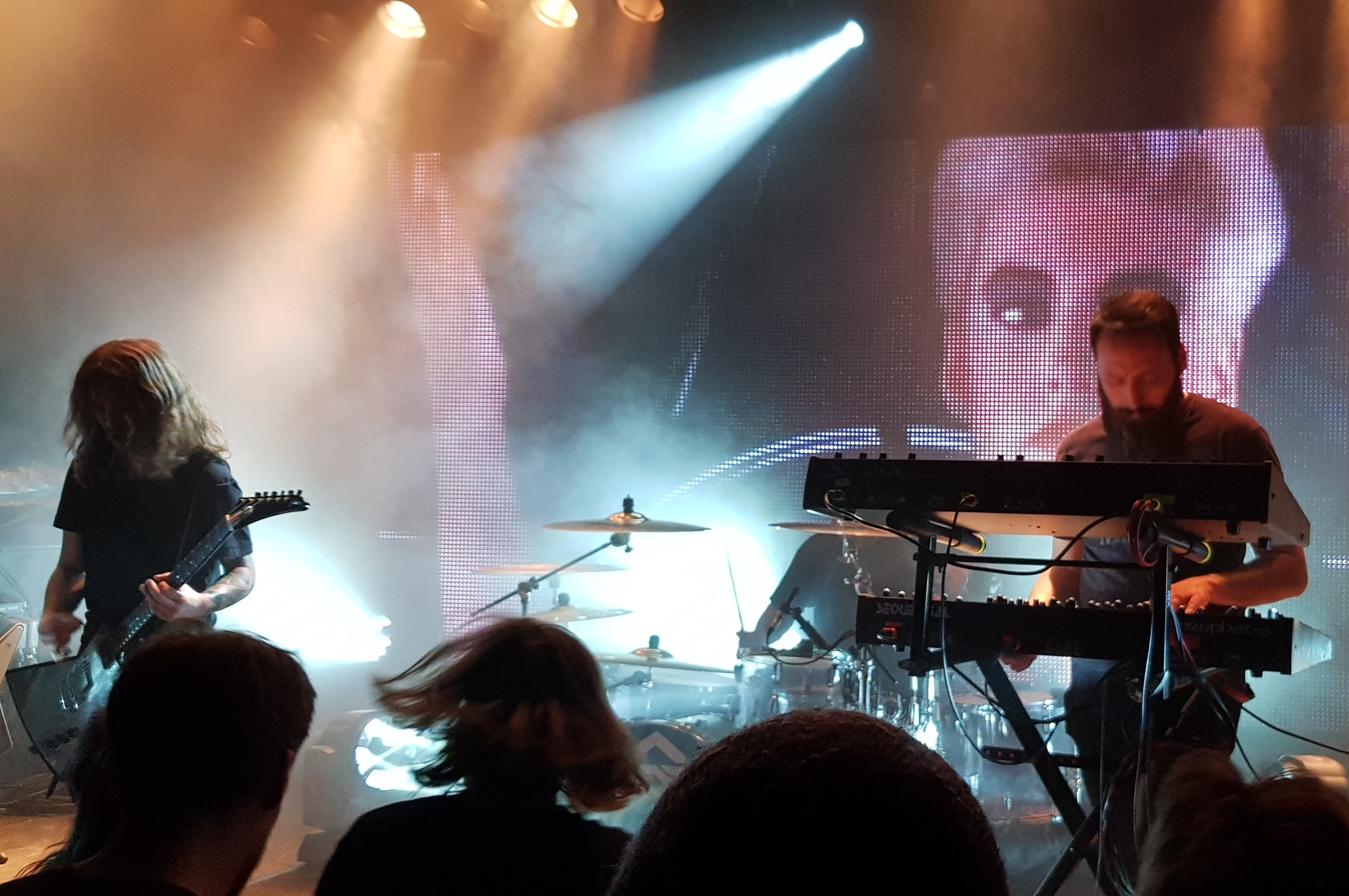 A photo of Carpenter Brut, taken during a live performance in Hamburg, 2018.